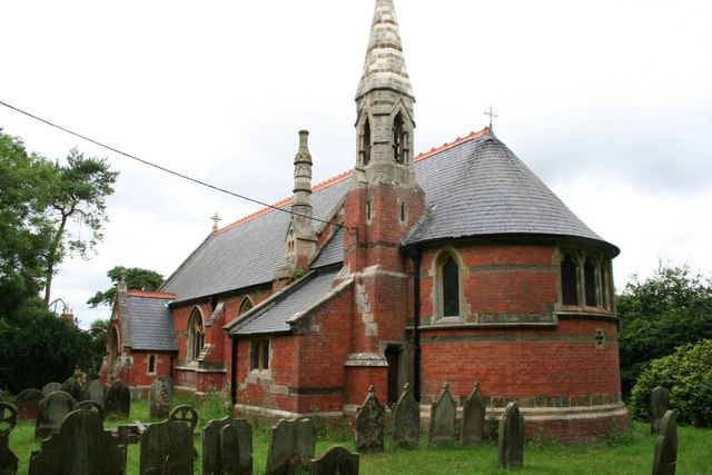 St.Stephen's church, Hatton, Lincs. By James Fowler in 1870-4